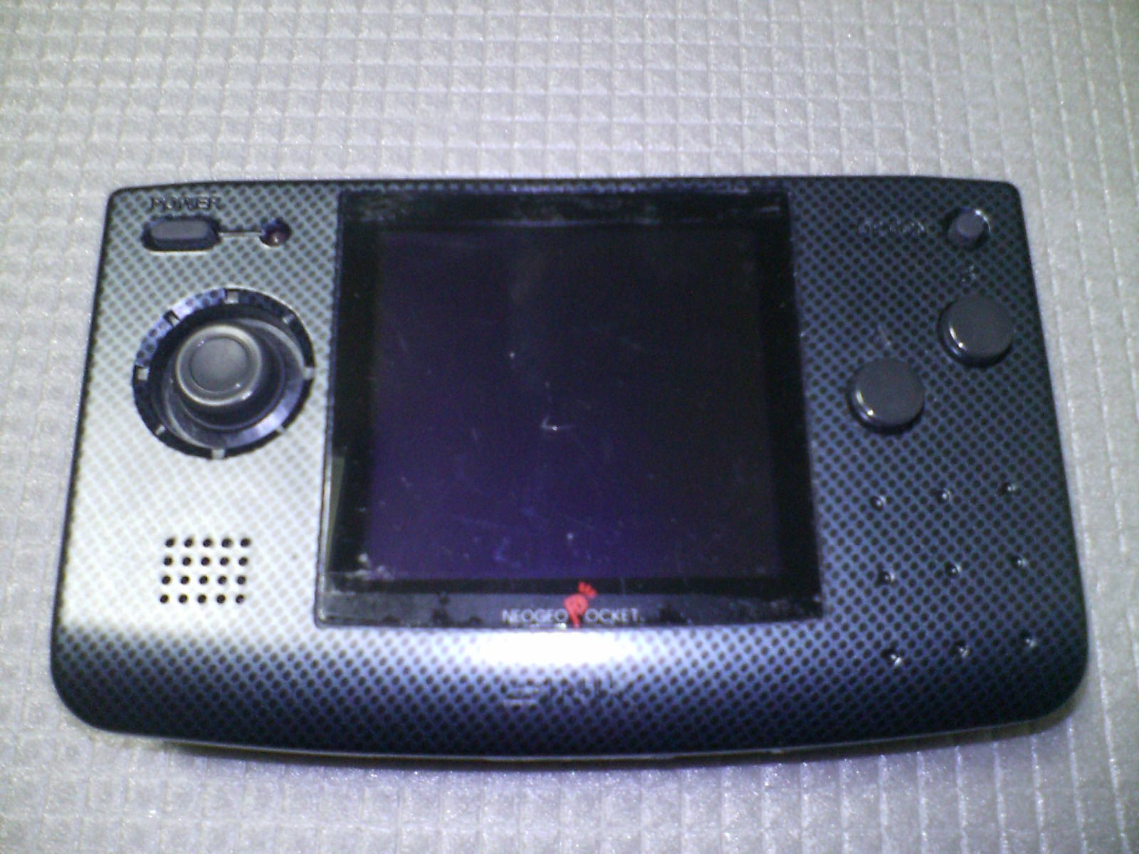 Neo Geo Pocket (Monochrome version)